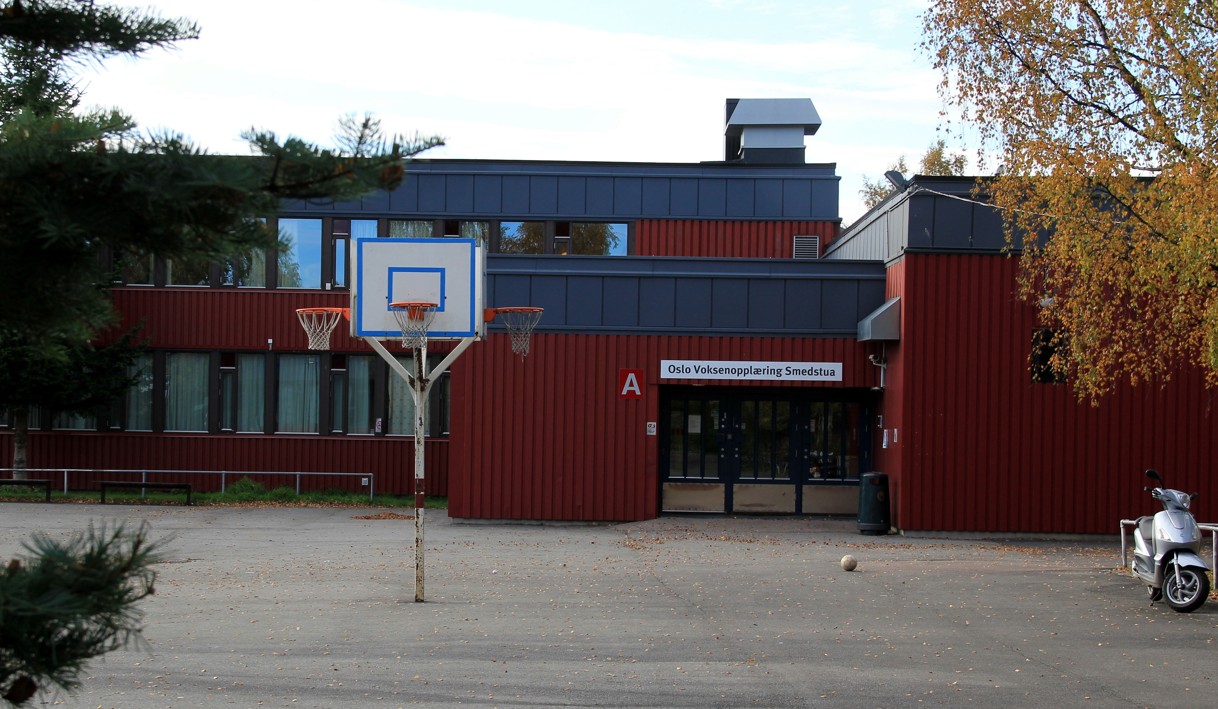 Oslo Voksenopplæring Smedstua - Adult education centre